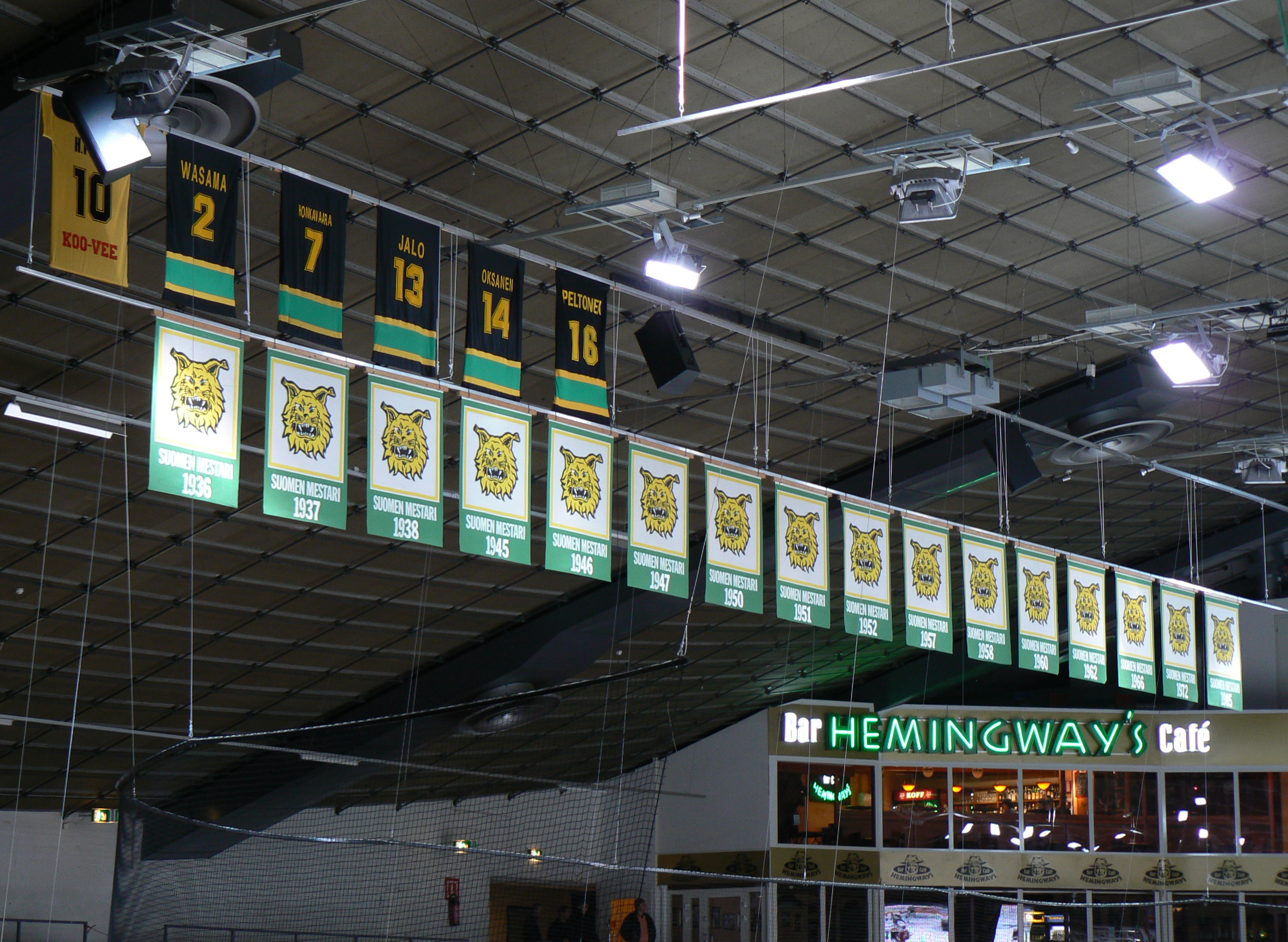 Banners commemorating championships won and player numbers retired by the Finnish ice hockey club Ilves Tampere, at the Hakametsä hockey arena.